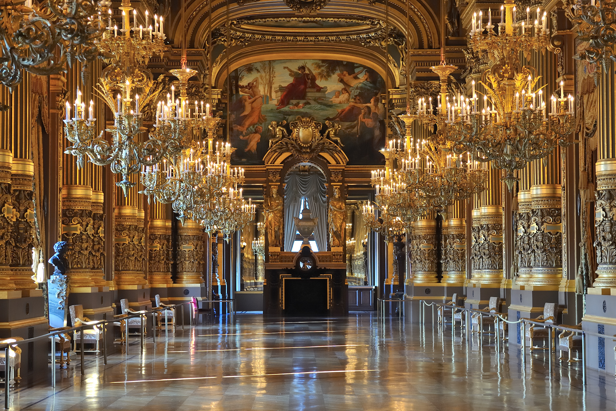 Opera House of Paris, the Palais garnier's grand salon.